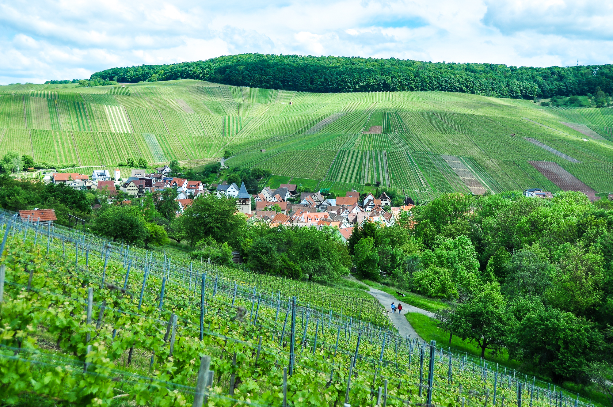 Weinstadt-Strümpfelbac is embedded in vineyards. Woods mark the egde of the plain (in parts) of Schurwald.